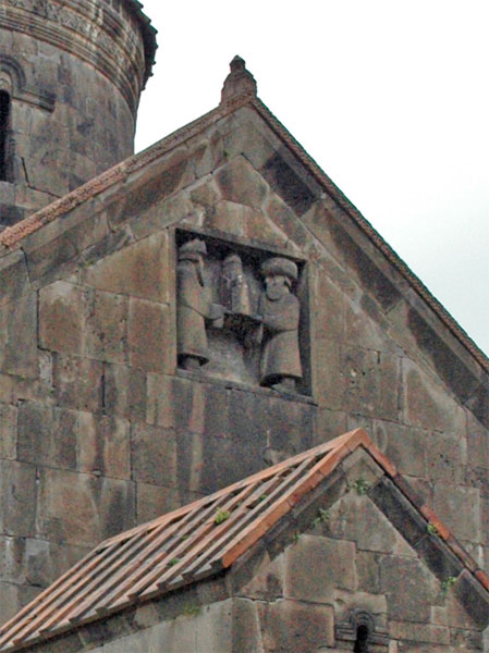 Haghpat monastery. Surb Nshan church. Armenia